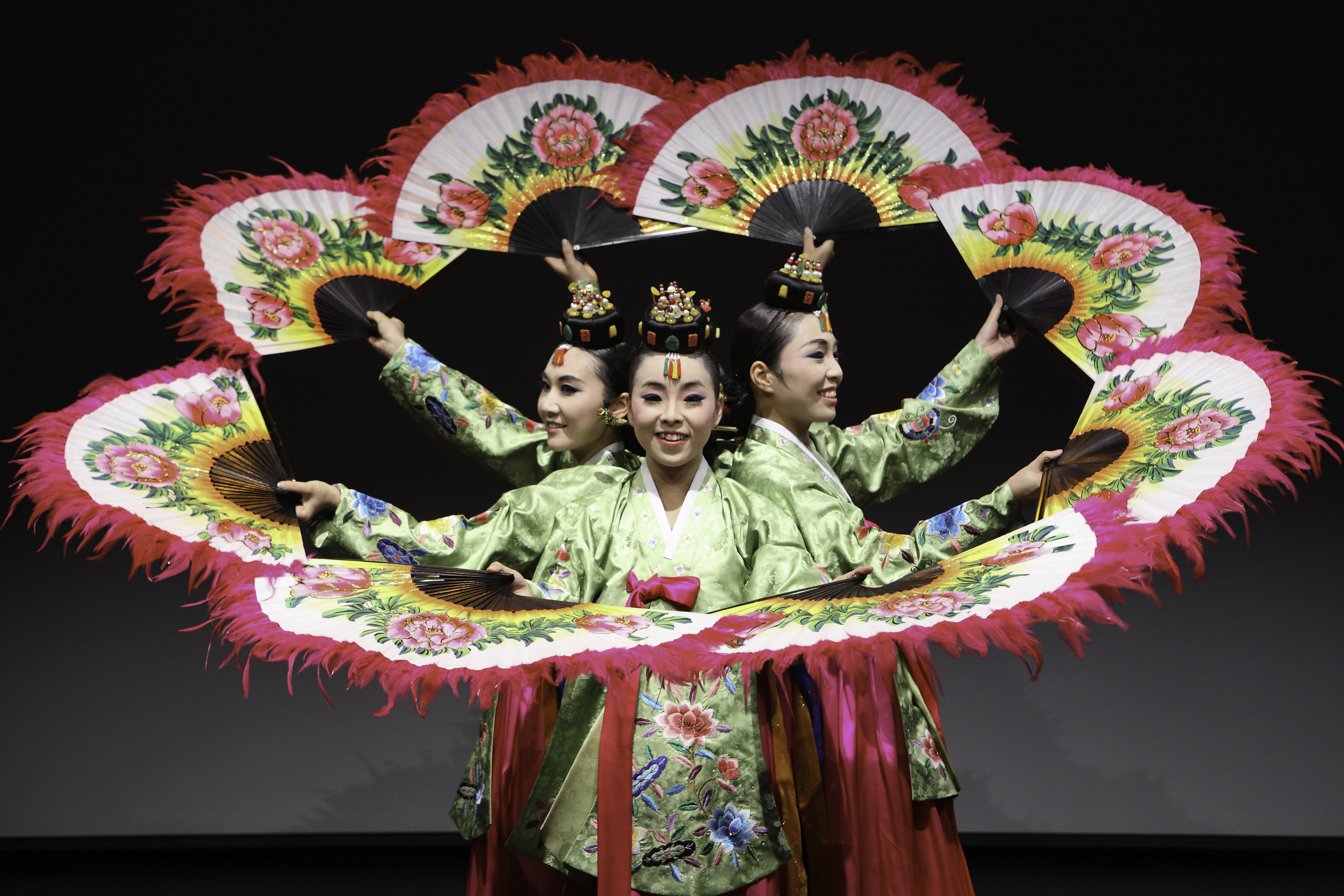 Traditional Korean dance by a performance group, Nanuri